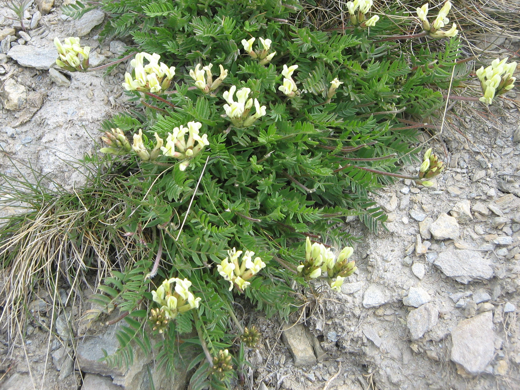 Oxytropis campestris